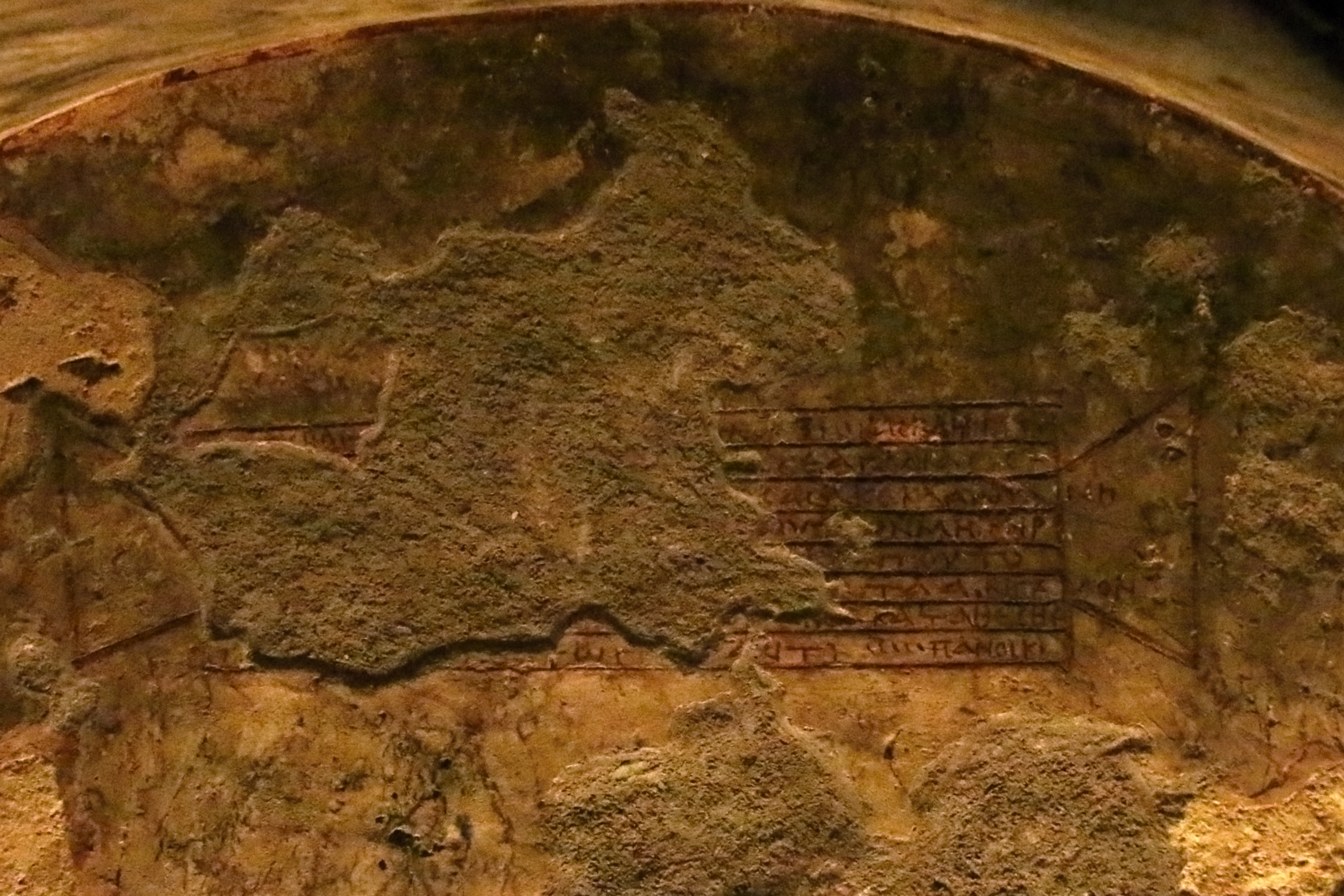 Catacombs of Milos. The inscription of the "Tomb of the Presbyters": "In name of the Lord. The presbyters who are worthy that we should honour them, that we should remember them, Asclepis and Elpizon an Asclepi[odotus] and Agasialis the deacon and Eutychia and Claudiana, who remained unwed, and their mother, Eutychia, lie here. And since the tomb is full, I conjure you in the name of the angel in attendance here that no one should venture to put in another corpse. Jesus Christus, help him who wrote this, and all his family." (Gregory Belivanakis, Brief illustrated history of Melos, Athens 2006, p. 36.)